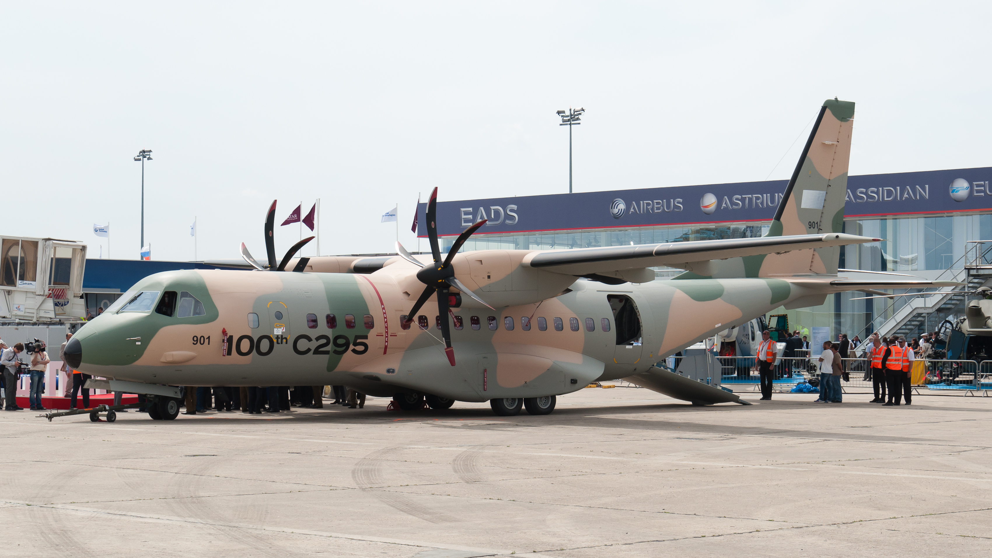 Royal Air Force of Oman EADS CASA C-295 (reg. 901, c/n 100) "100th C295" at Paris Air Show 2013.